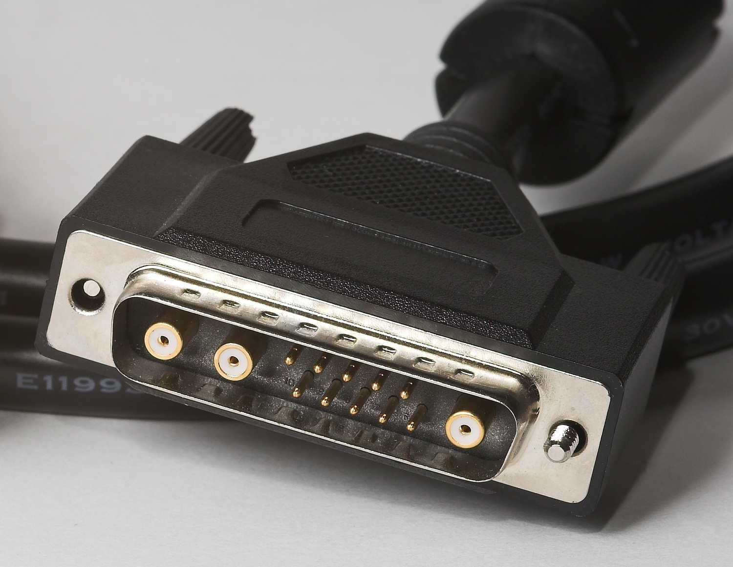 13W3 display connector (used on SUN and SGI workstations). The three sockets are co-axial lines for red, green, and blue.